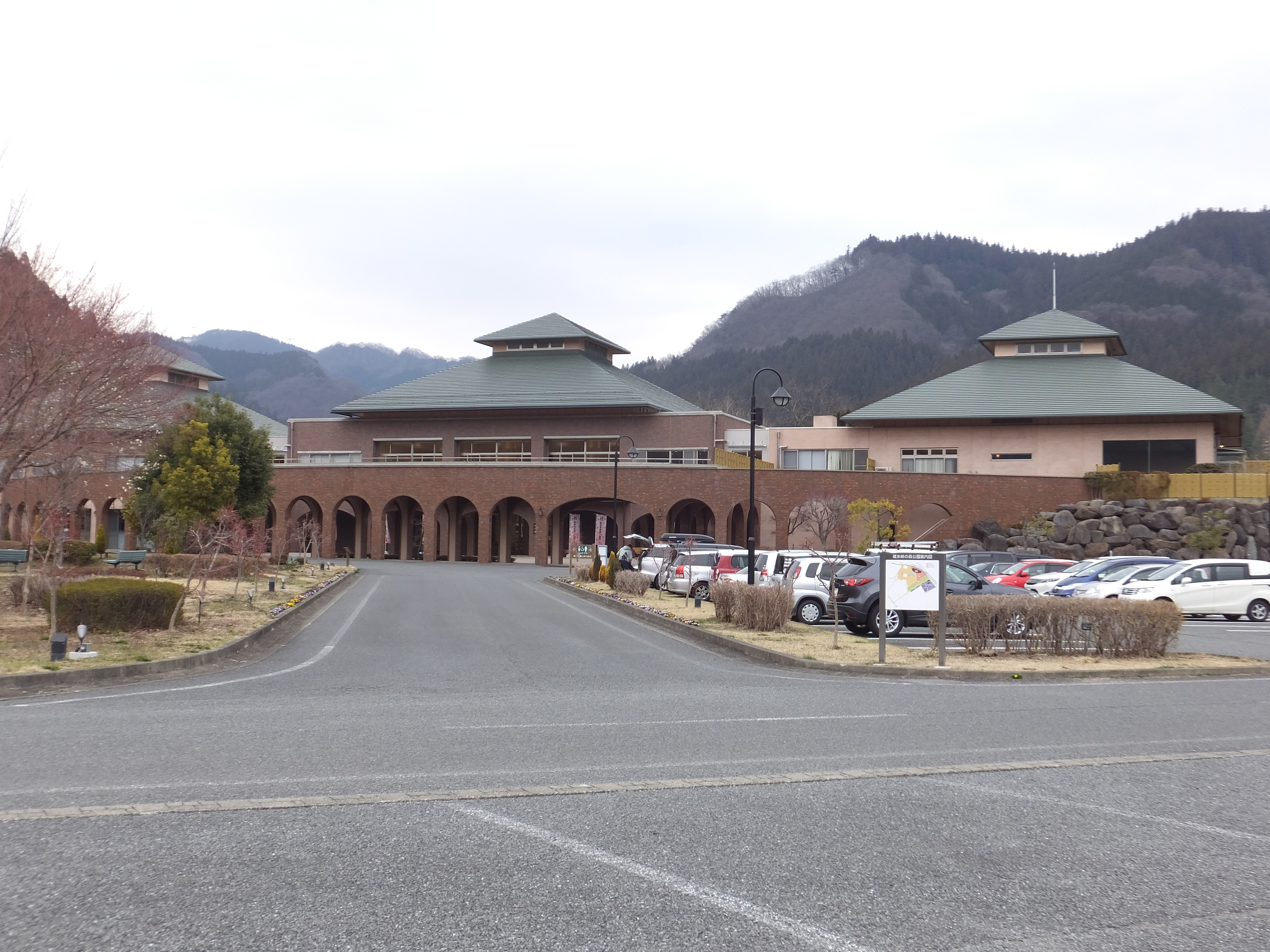 Usuitoge-no-mori Koen Koryukan Toge-no-yu in Annaka City, Gunma Prefecture, Japan